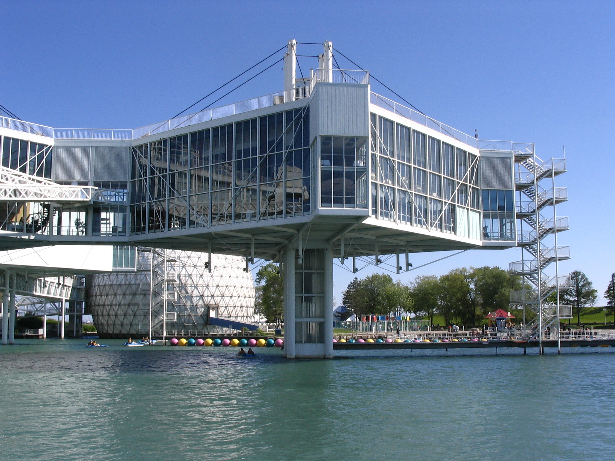 i ride my bike past this on my way home most days but this time i was cruising around on a friends boat. Ontario Place, Toronto, Canada.